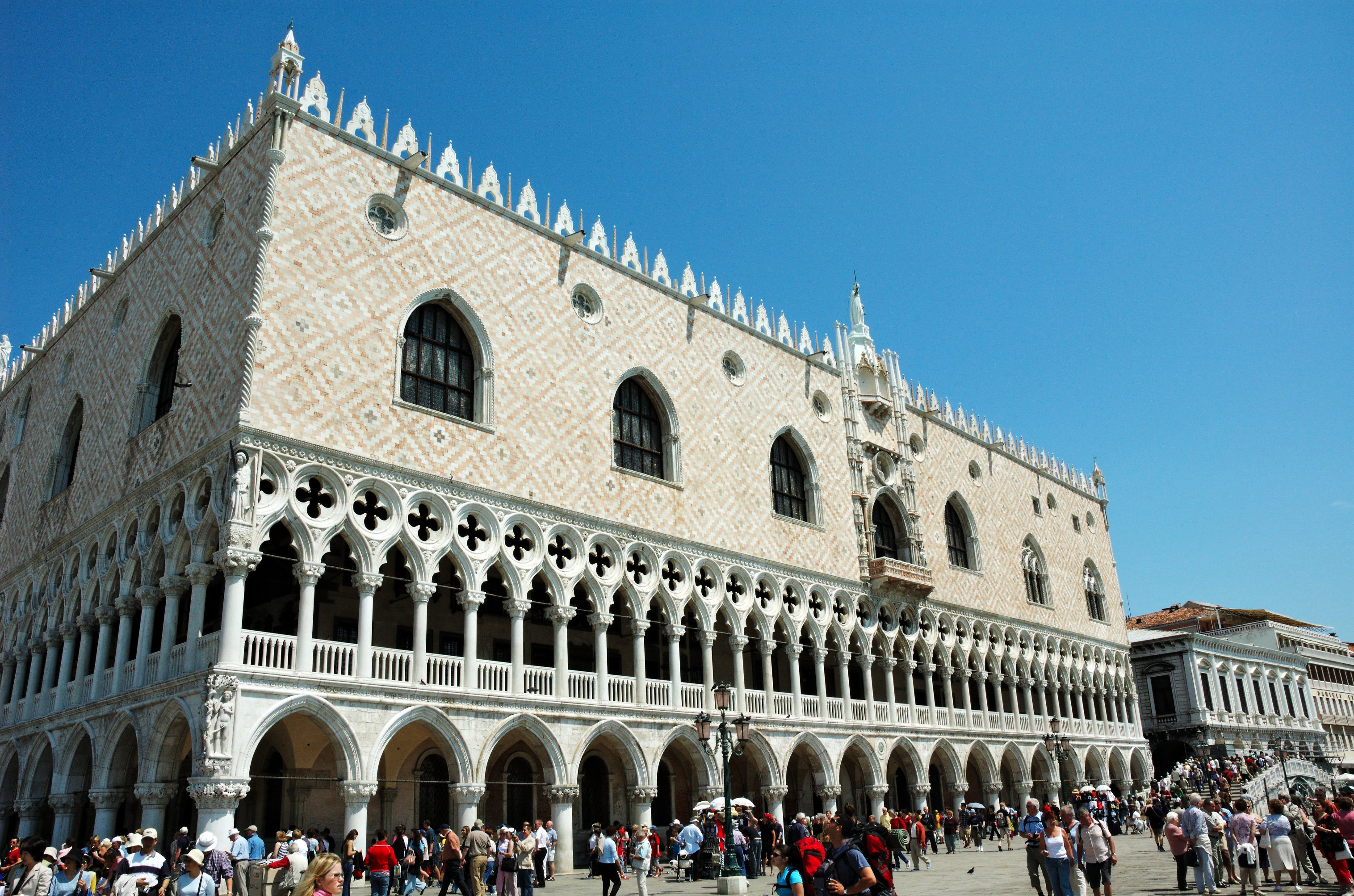 Sea facade of Doge's Palace, Venice.